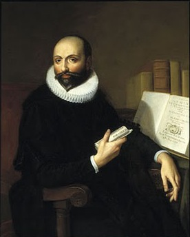 James Arminius (1560-1609), Pastor, Professor, and Theologian. Information about author and date obtained from Arminius, Arminianism, and Europe: Jacobus Arminius (1559/60-1609), edited by Th. Marius van Leeuwen; Keith D. Stanglin; Marijke Tolsma (London: Brill, 2009), 257.